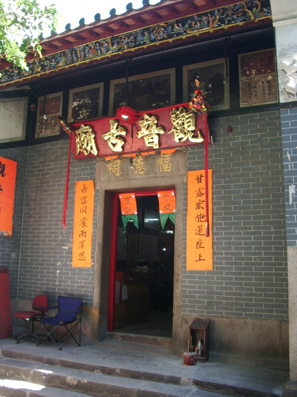 Another hall named for Guanyin - the red sign reads Old Guanyin Temple. This was being used more as an informational hall where I could read and buy some books on Guanyin. Of course, that assumes I am fluent in written Chinese, which is not the case.